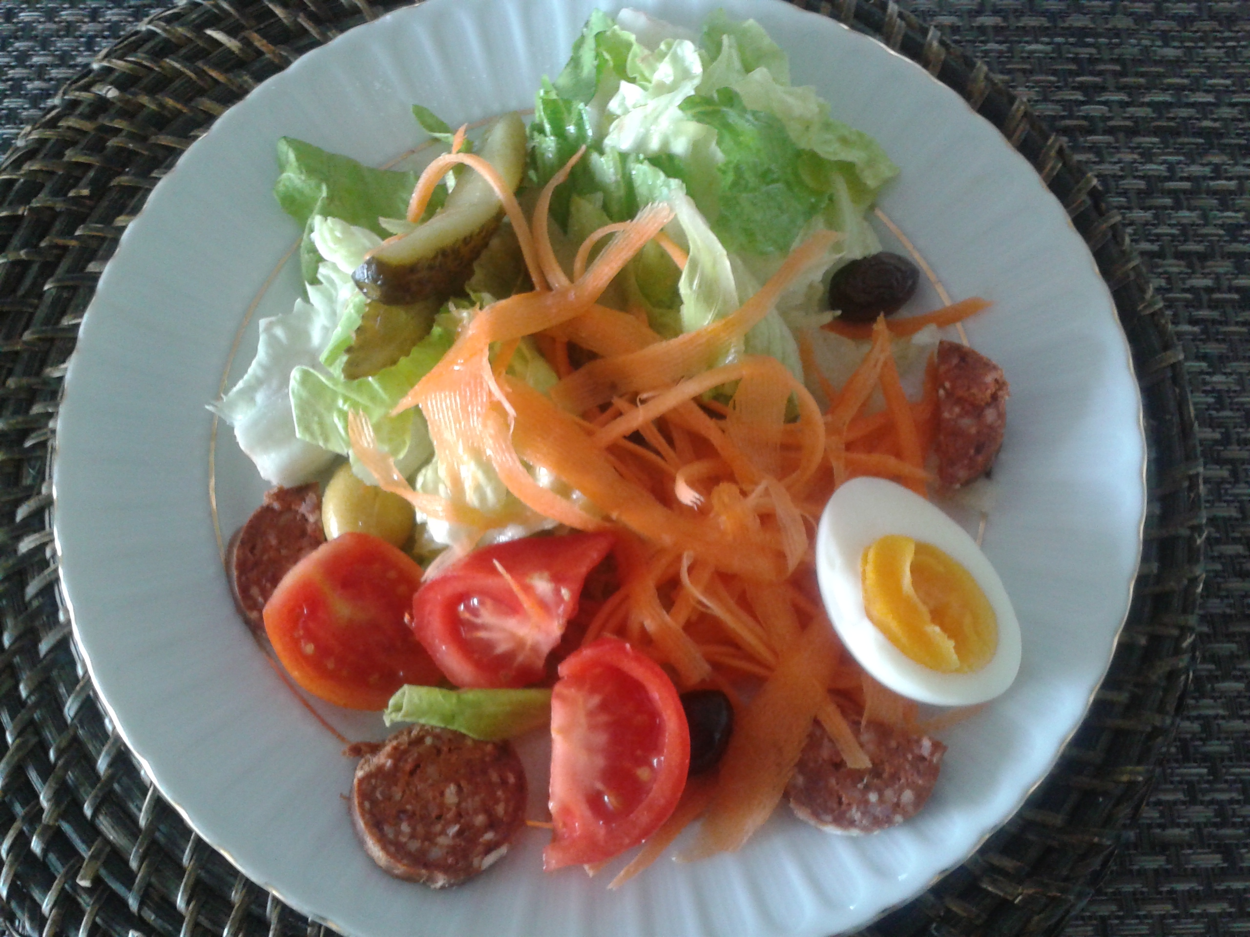 Starter with Turkish sucuk.